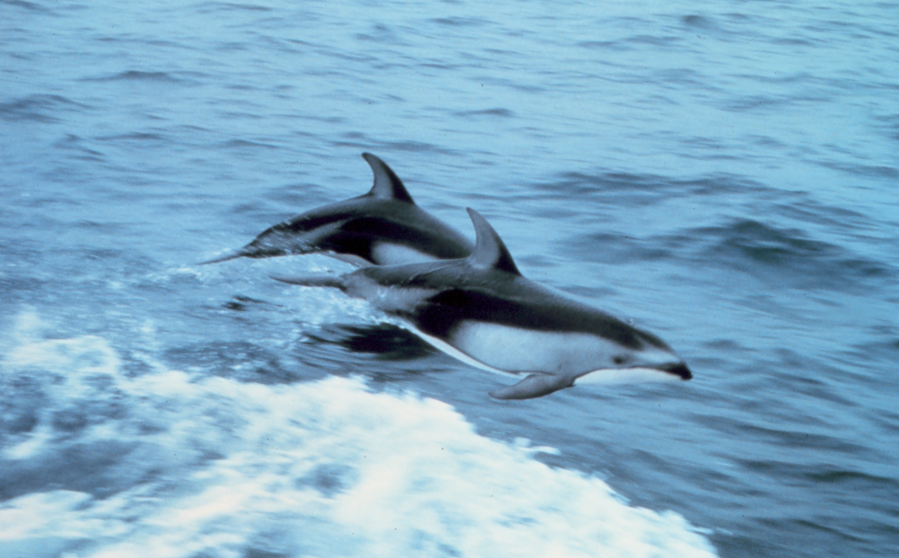 Two Pacific White-sided dolphins (Lagenorhynchus obliquidens).